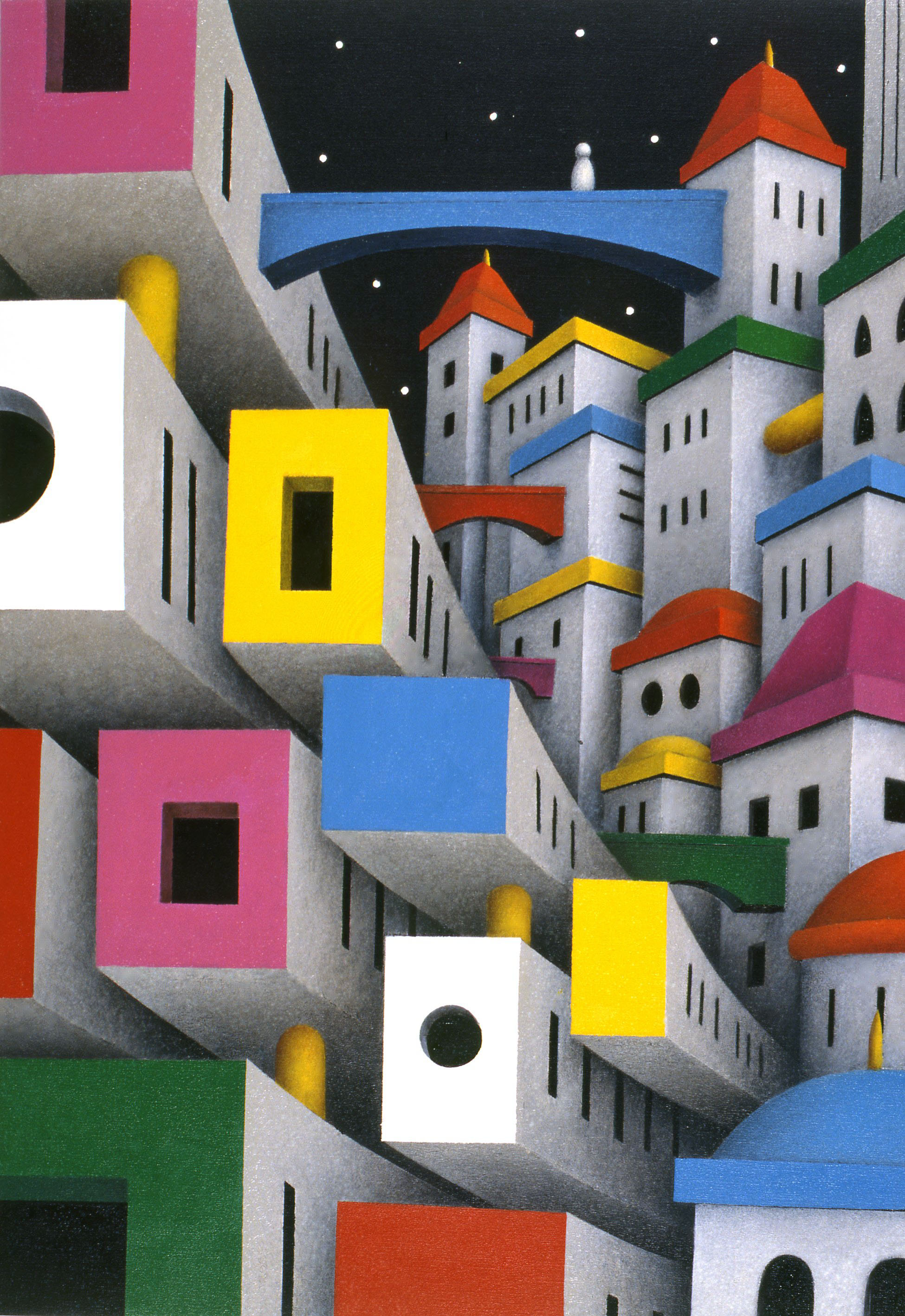 Photo of P. A. Breccia's painting: "Il luogo e l'altrove", oil on canvas, cm 70x100, 2010